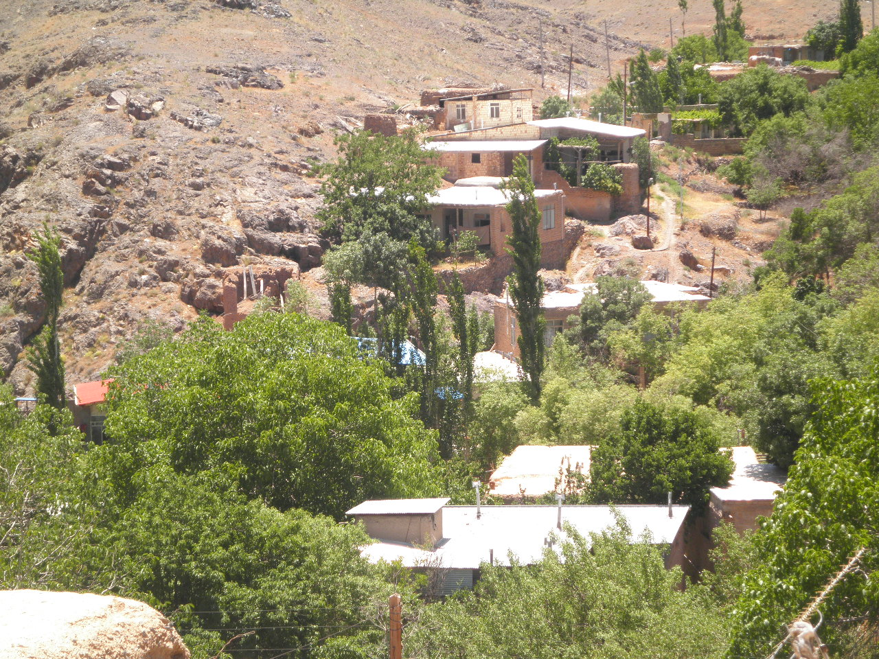 روستای قه